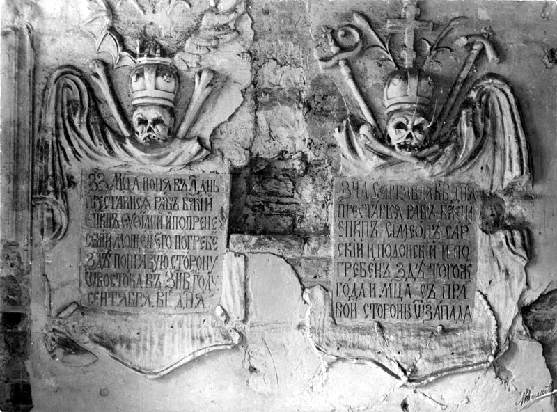 The medieval tombs of bishops in Krutitsy Cathedral